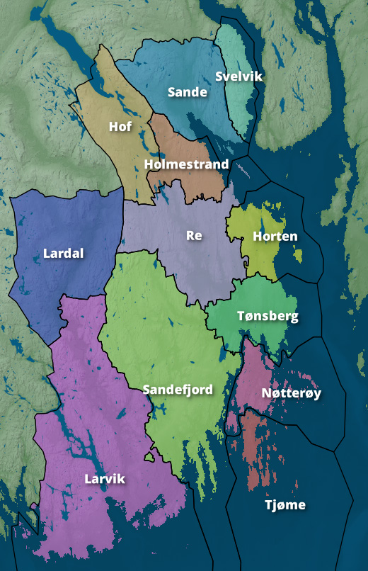 Municipalities in Vestfold, Norway valid from 2017-01-01